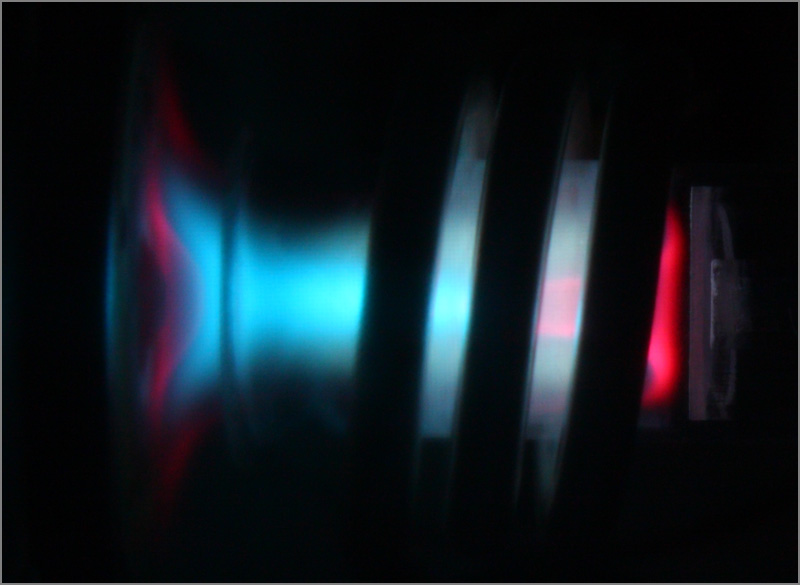 Plasma "torch" in an Inductively Coupled Argon Plasma Mass Spectrometer.